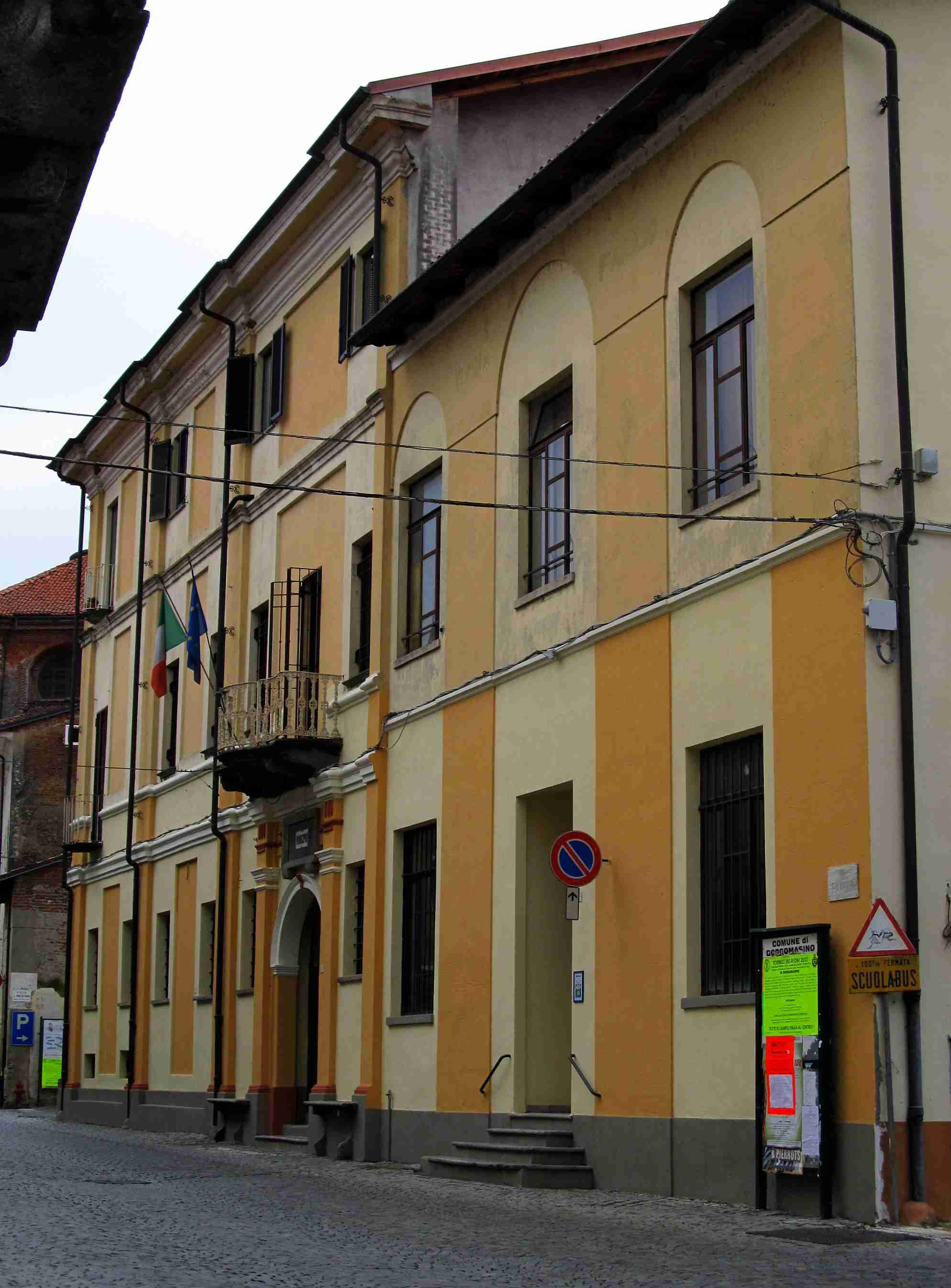 Borgomasino (TO, Italy) town hall